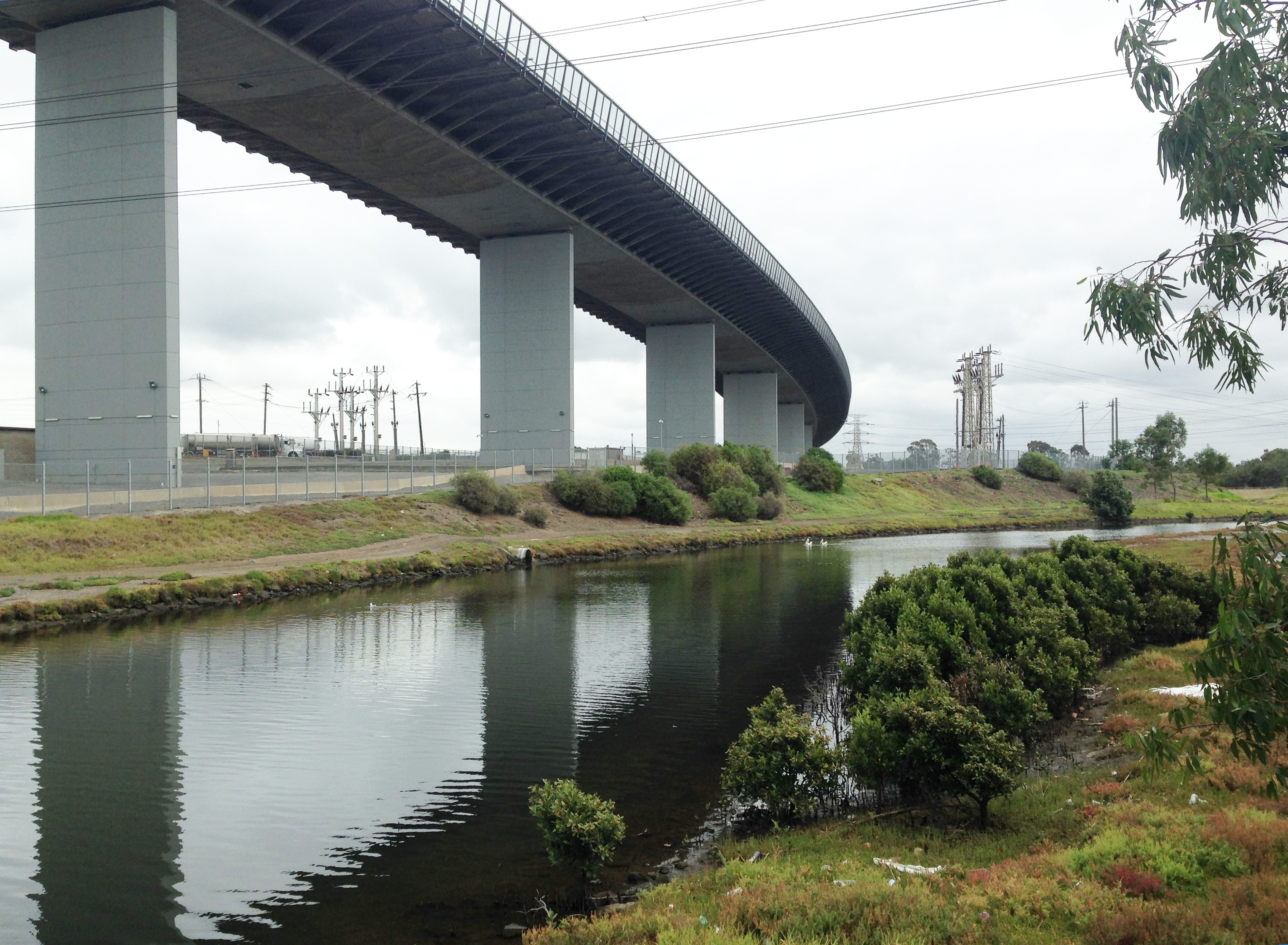 The West Gate Bridge above Stony Creek in Yarraville, Melbourne, Australia, where an offramp of the proposed West Gate Distributor road will be located.